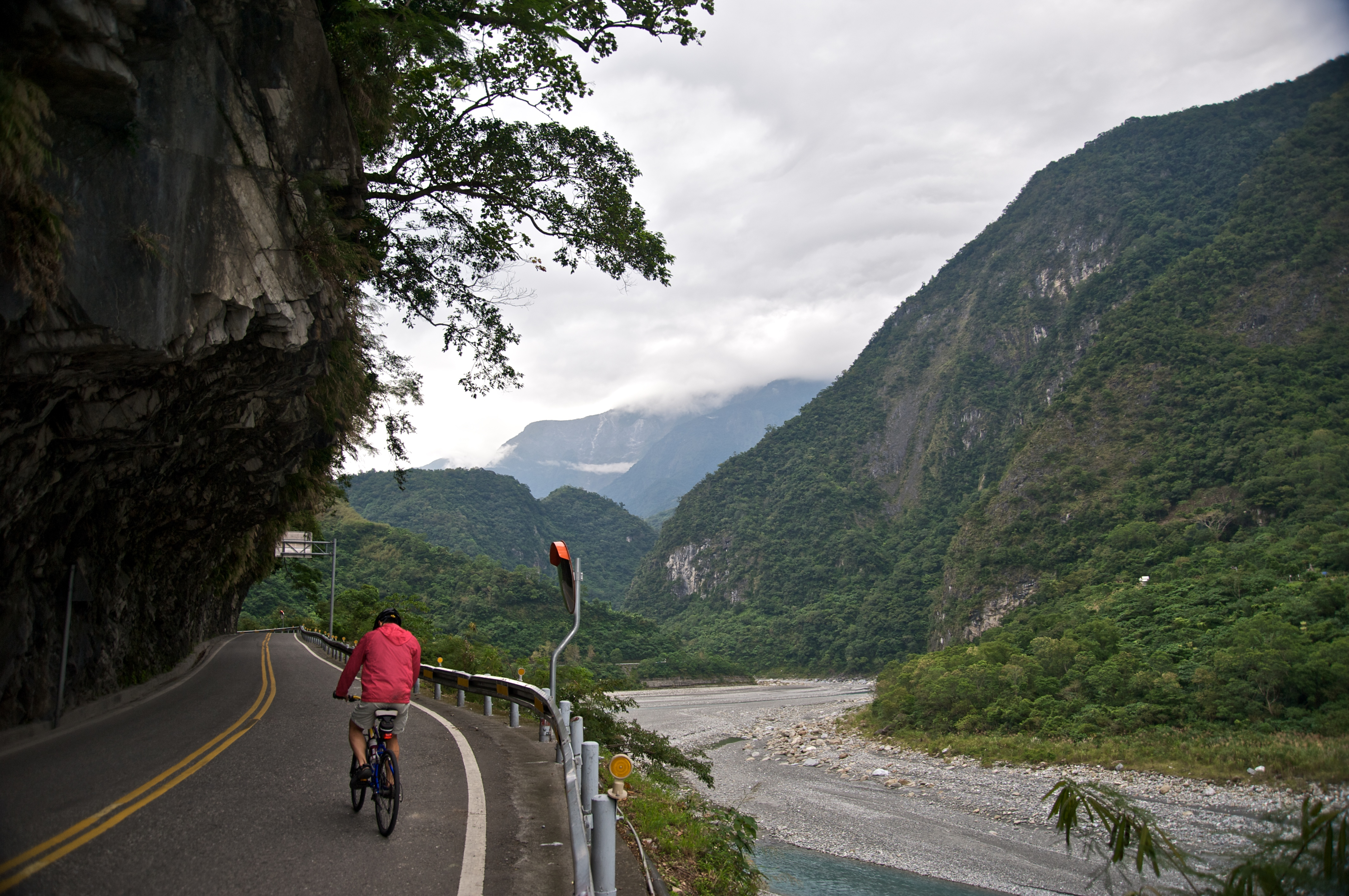 Biking uphill on the Central Cross-Island Highway at Taroko Gorge in Taiwan